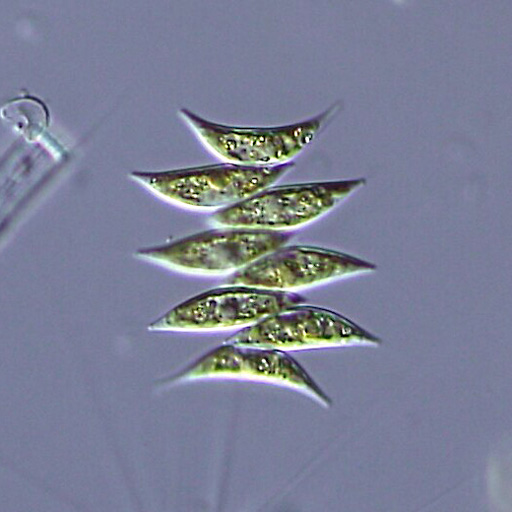 Scenedesmus dimorphus (Turpin) Kützing, 1833 / from Shishitsuka-Pond, Tsuchiura, Ibaraki Pref., Japan / Microscope:Leica DMRD (DIC)